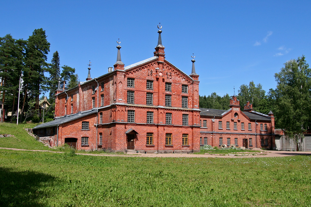 Verla groundwood and board mill, Kouvola, Finland